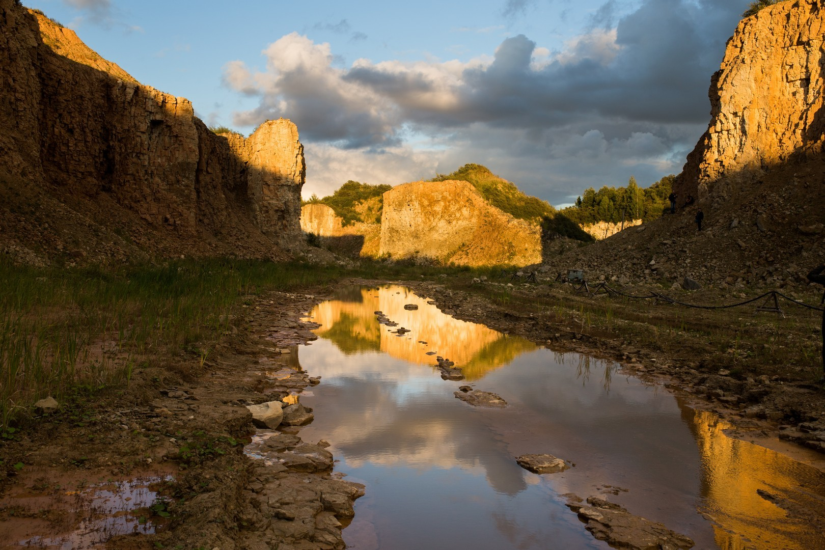 Menčiai limestone quarry, Akmenė district, Lithuania